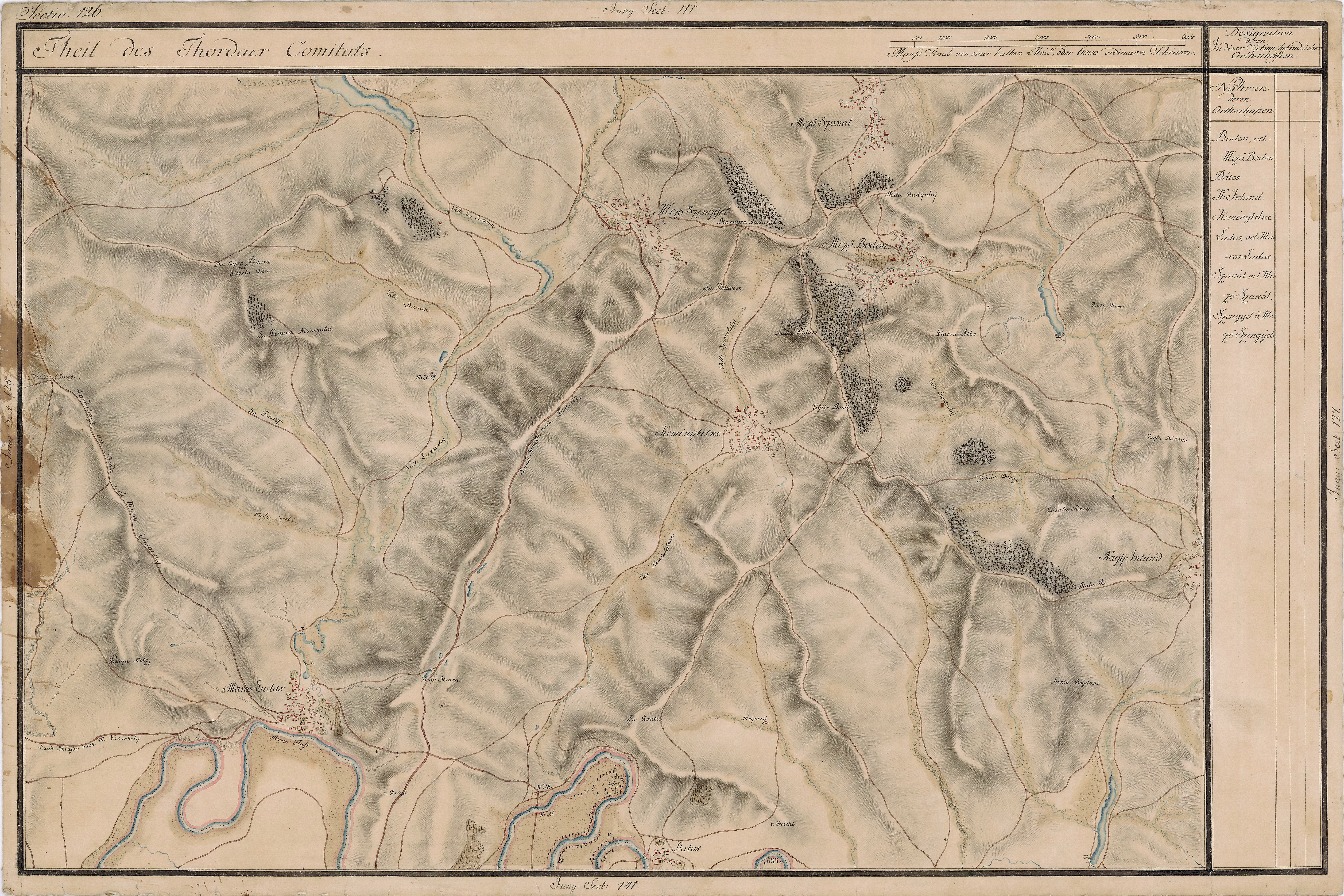 Grand Duchy of Transylvania, 1769-1773. Josephinische Landaufnahme pg.126